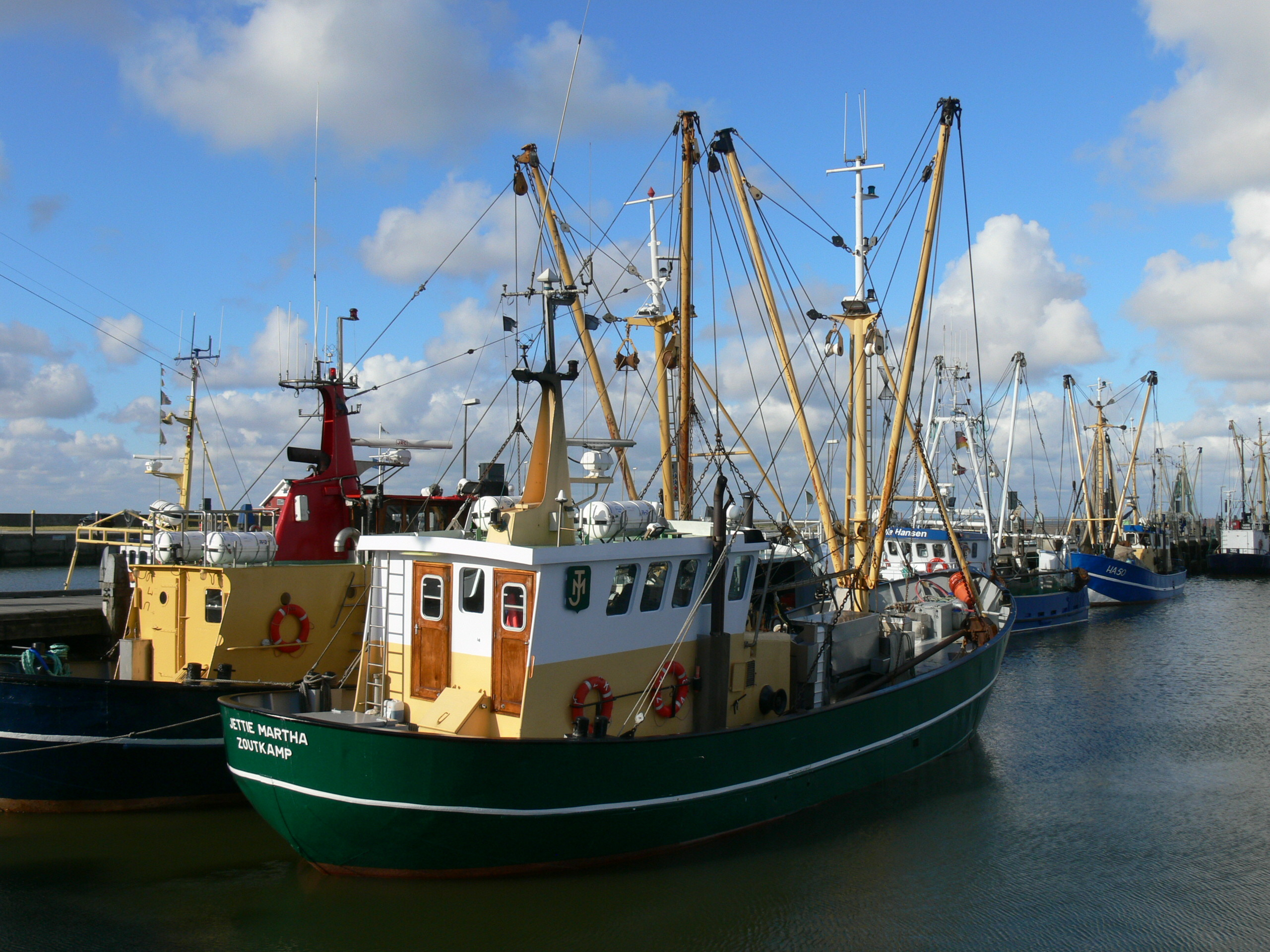 Rømø ( Denmark ). Boats in the harbour of Havneby.